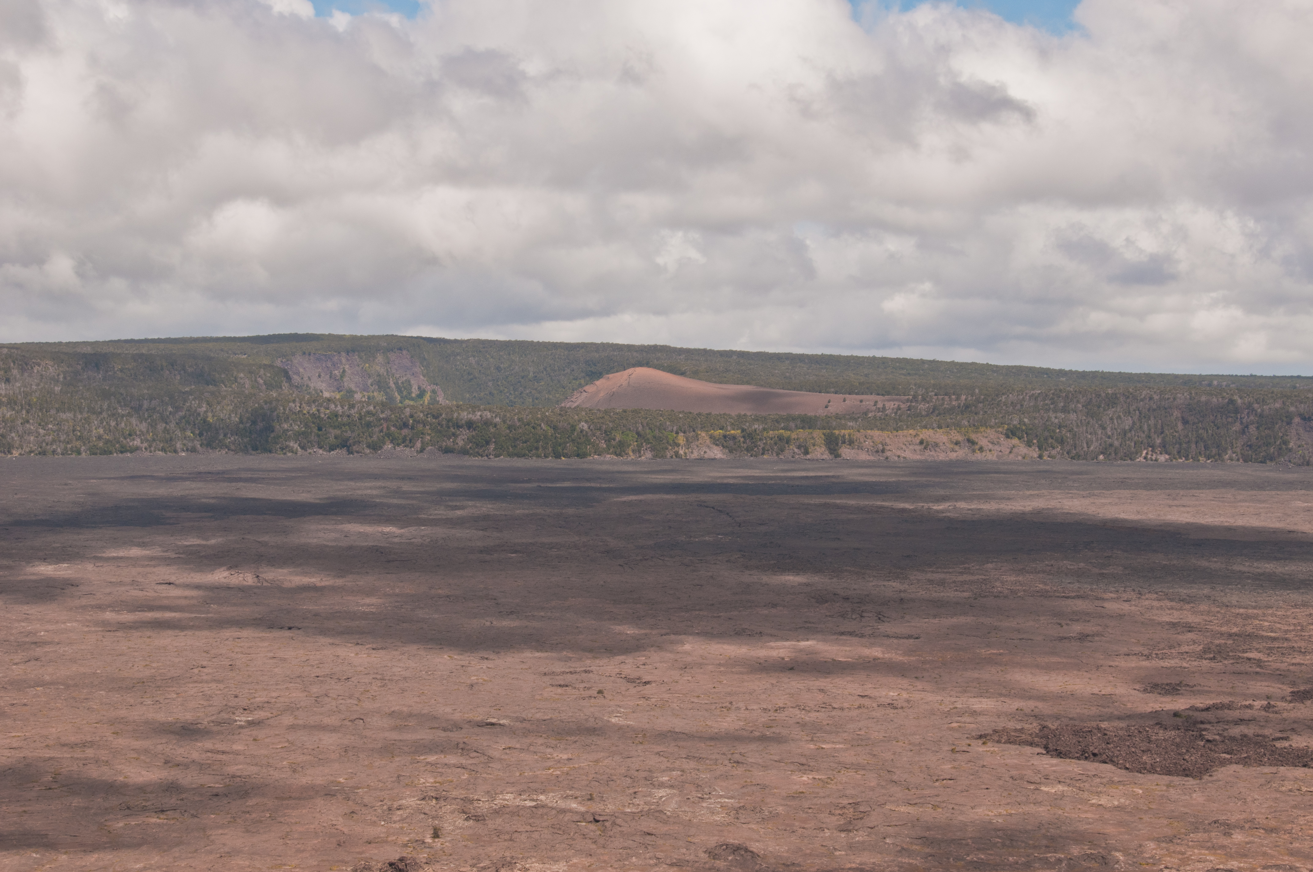 Kīlauea Iki (Puʻu Puaʻi on his right) seen from the Kīlauea Overlook across the Kīlauea Caldera. Byron Ledge lies between the two craters. Behind the Kīlauea Iki extend the flanks of the ancient Aila’au volcanic cone.